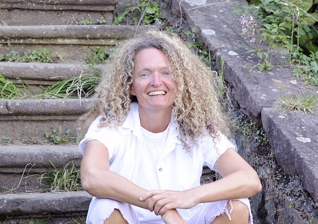 Portrait of journalist and author Stephanie Theobald